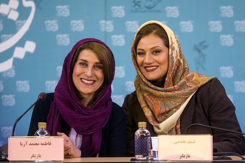 Media conference of Abajan at Fajr festival